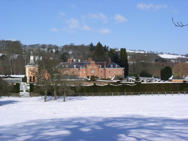 Nantclwyd Hall. One of the many homes belonging to the Naylor-Leyland family.